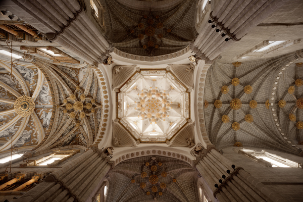 Catedral; Tarazona, Zaragoza, Aragón, Spain; bóvedas de crucero y lanterna; ref: PM_094733_E_Tarazona; ; Photographer: Paul M.R. Maeyaert; © Paul M.R. Maeyaert; ; Cultural heritage; Cultural heritage/Cathedral; Europeana; Europe/Spain/Tarazona